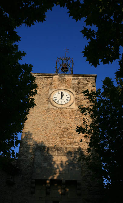 the village of Richerenches (Vaucluse, France)